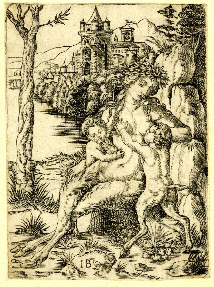 Giovanni Battista Palumba, print in the British Museum